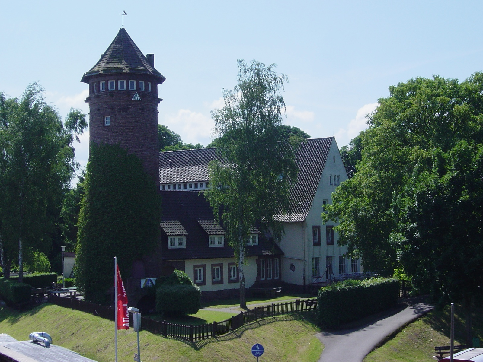 Youth hostel Holzminden (Germany)